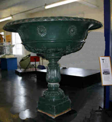 A decorative garden vase made for Derby Arboretum by the Handyside Foundry in 1846